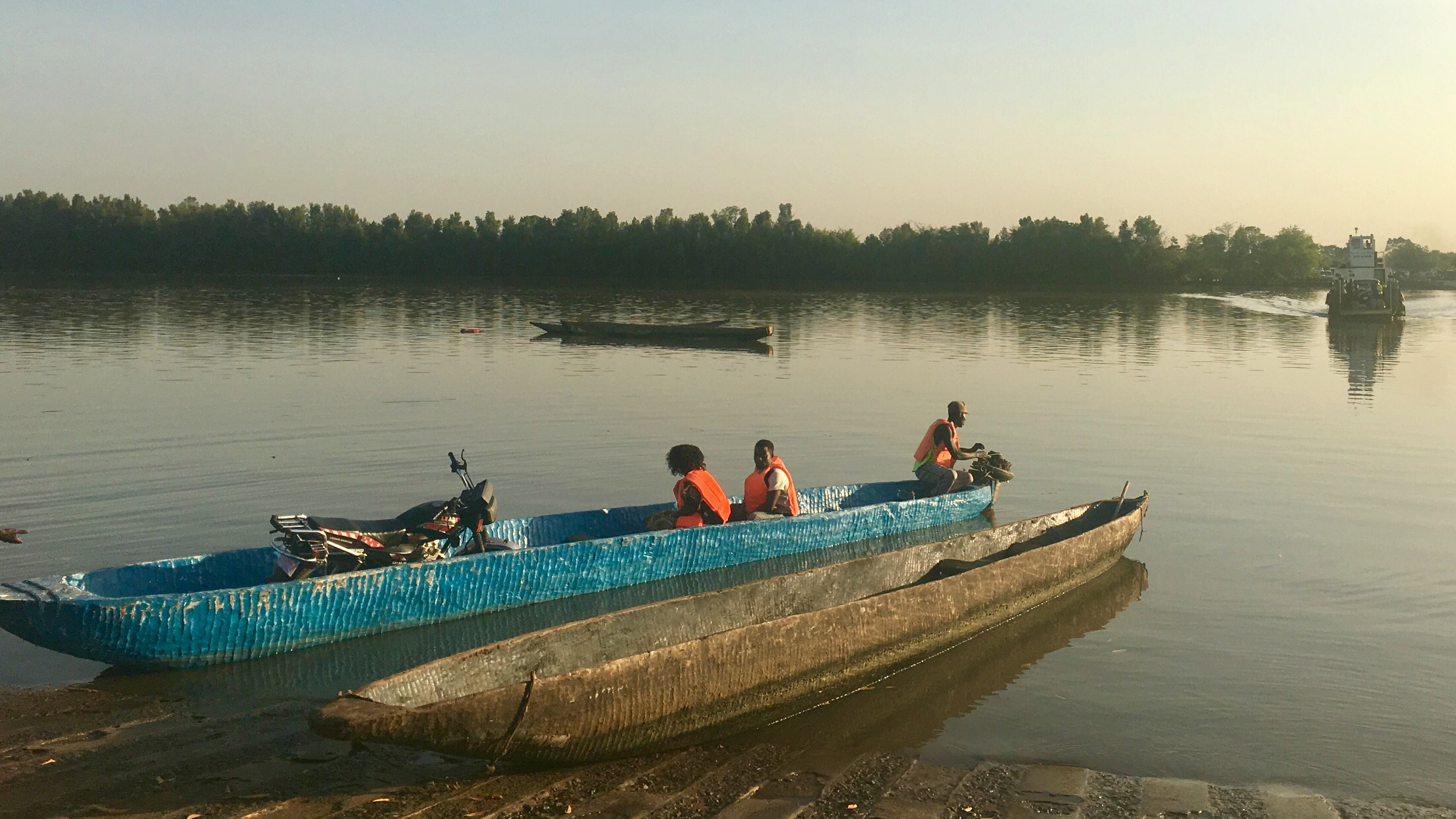 This is an image with the theme "Africa on the Move or Transport" from: Guinea-Bissau